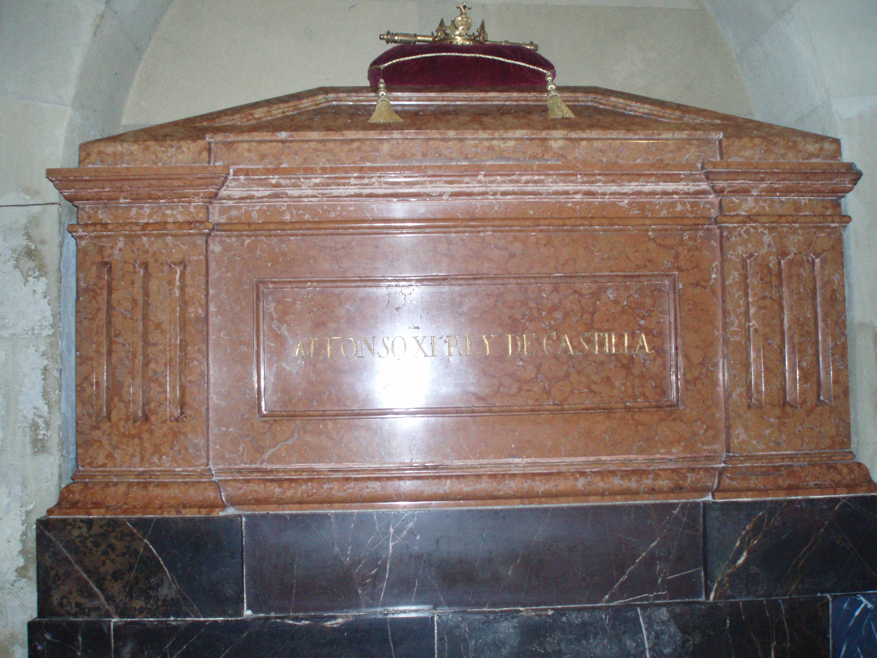 Tomb of the king Alfonso XI of Castile (1311-1350). Church of Saint Hippolytus of Córdoba, (Spain).